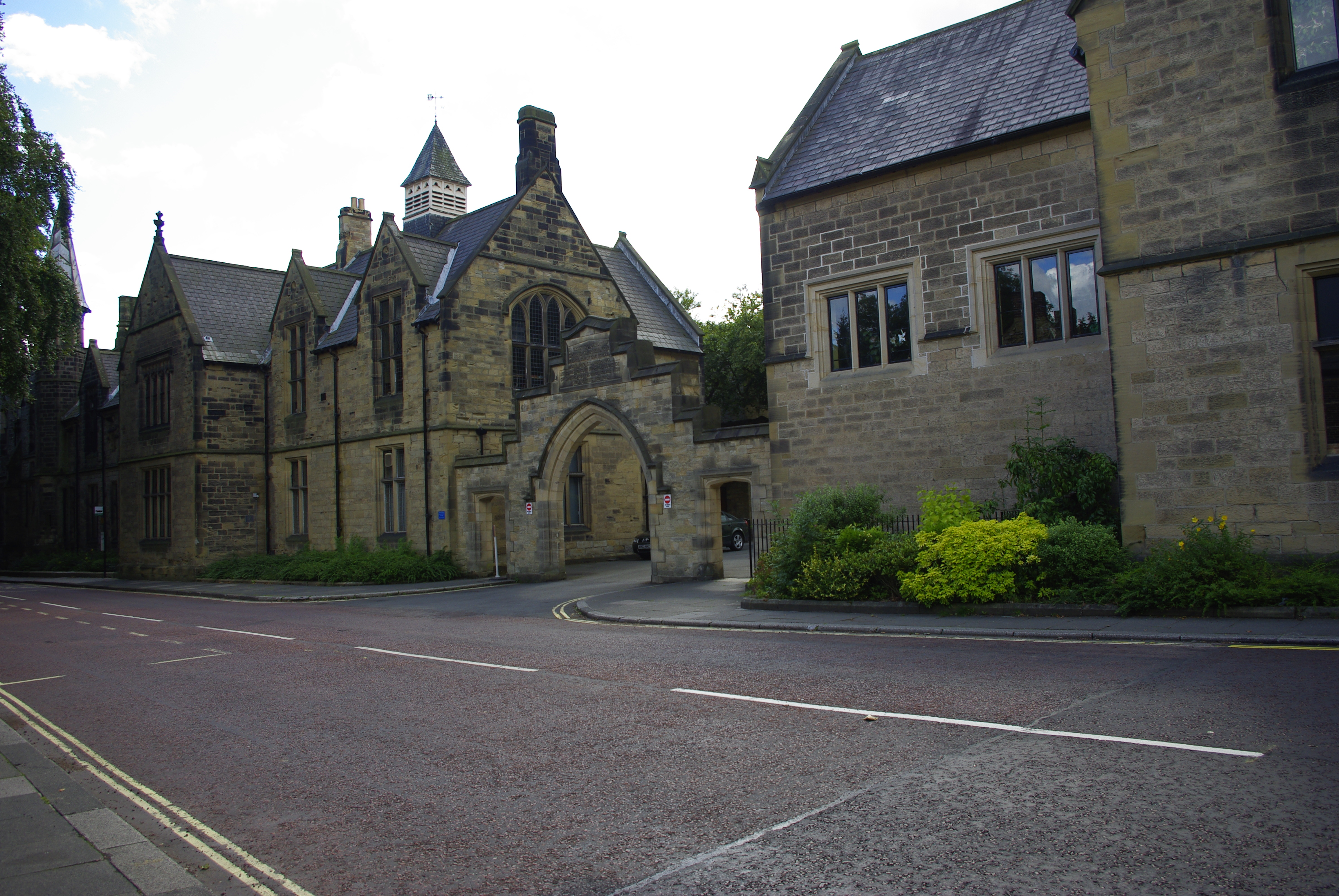 Durham School from the road, showing the Kerr Arch in the centre.